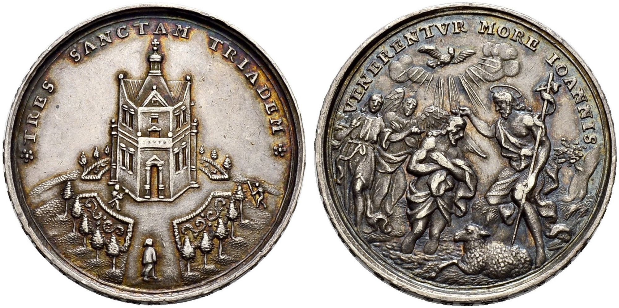 medal of Franz Anton von Sporck to commemorate consecration of St. John Baptist chapel at Vysoká